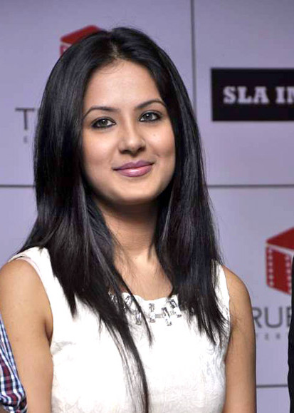 Actress Pooja Bose at the audio release of 'Rajdhani Express'